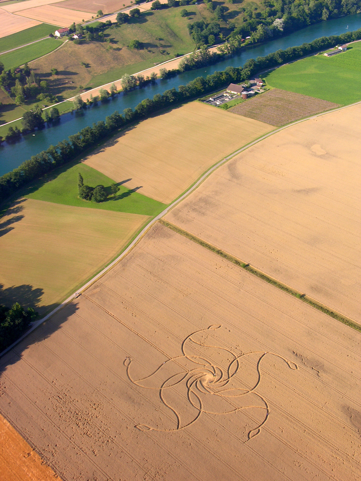 Aerial View of the Crop Circle in Diessenhofen